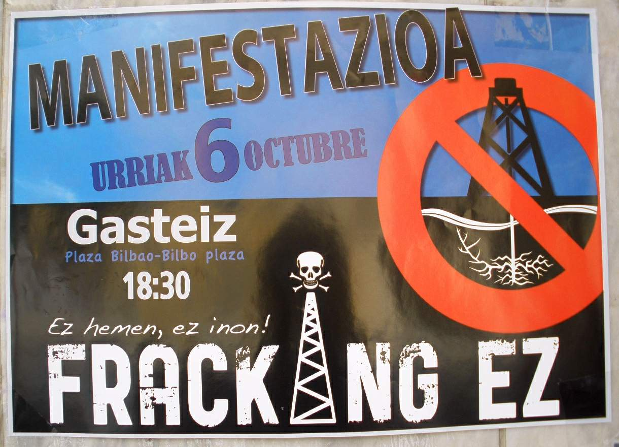 Anti-fracking poster in Vitoria-Gasteiz, Álava, Spain.